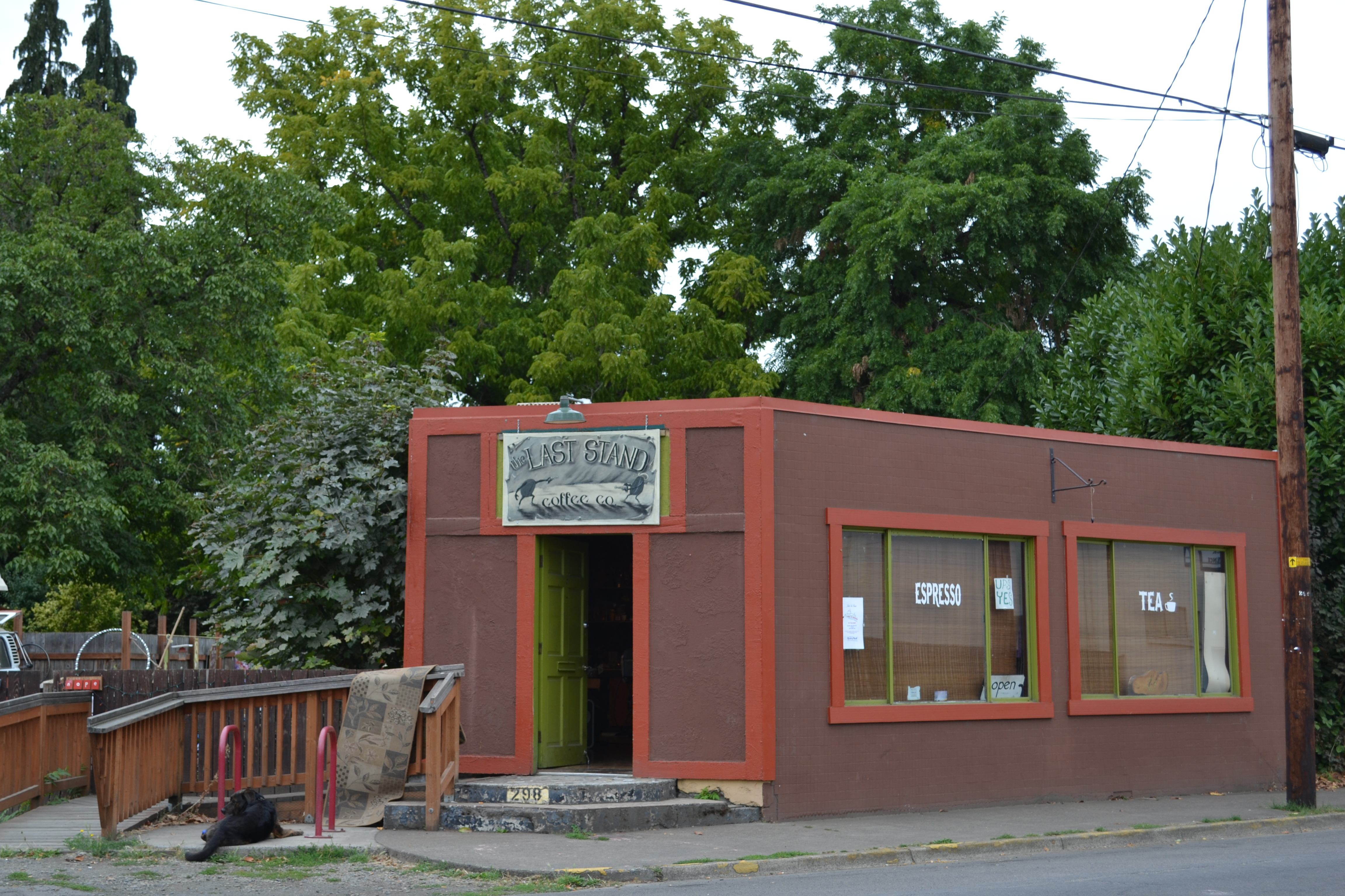 The Last Stand Coffee Company, 298 Blair Boulevard, Eugene, OR, USA